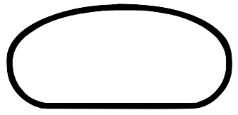 Mapa do Michigan International Speedway